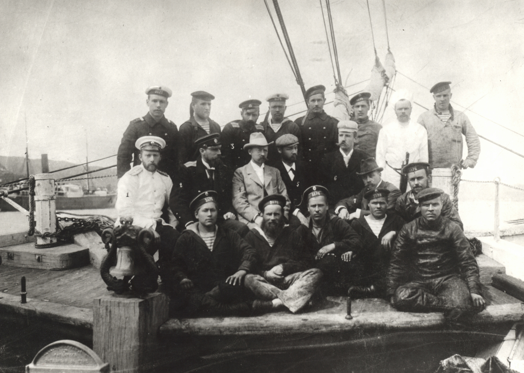 Photo of a Russian schooner Zarya (Заря) crew. Photo copied from This work is in the public domain in its country of origin and other countries and areas where the copyright term is the author's life plus 70 years or fewer. You must also include a United States public domain tag to indicate why this work is in the public domain in the United States. Note that a few countries have copyright terms longer than 70 years: Mexico has 100 years, Jamaica has 95 years, Colombia has 80 years, and Guatemala and Samoa have 75 years. This image may not be in the public domain in these countries, which moreover do not implement the rule of the shorter term. Côte d'Ivoire has a general copyright term of 99 years and Honduras has 75 years, but they do implement the rule of the shorter term. Copyright may extend on works created by French who died for France in World War II (more information), Russians who served in the Eastern Front of World War II (known as the Great Patriotic War in Russia) and posthumously rehabilitated victims of Soviet repressions (more information). This file has been identified as being free of known restrictions under copyright law, including all related and neighboring rights.